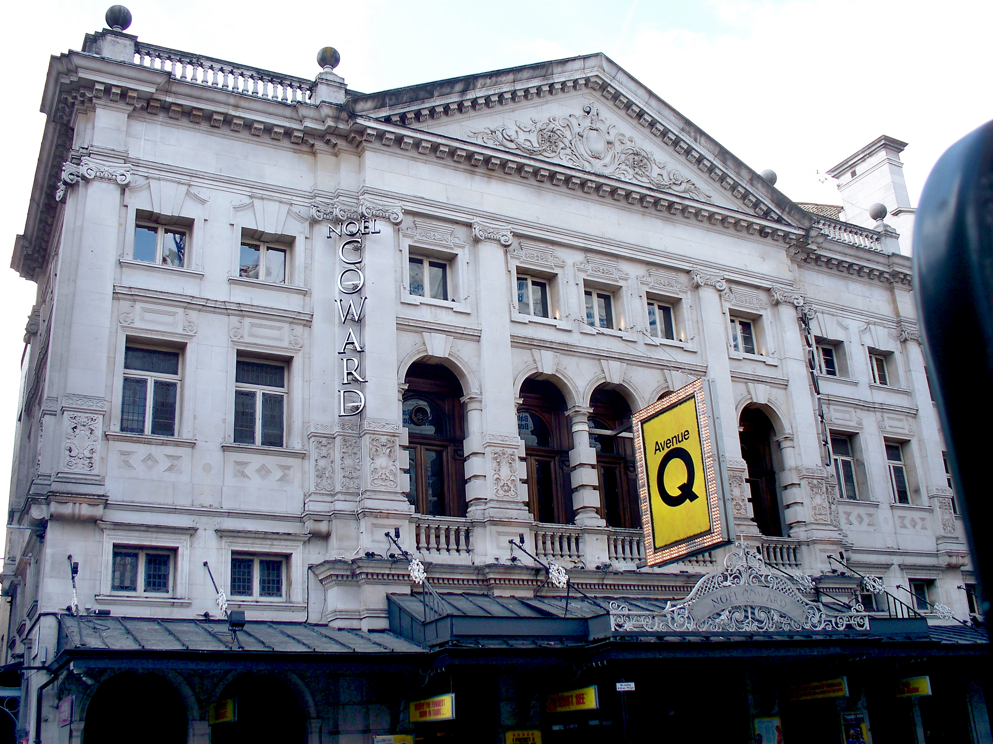 Noël Coward Theatre, London. Photograph taken in a public location in the UK of a building on permanent public display, and exempt from copyright under Section 62 of the Copyright Designs & Patents Act 1988 ("it is not an infringement of copyright to film, photograph, broadcast or make a graphic image of a building, sculpture, models for buildings or work of artistic craftsmanship if that work is permanently situated in a public place or in premises open to the public")